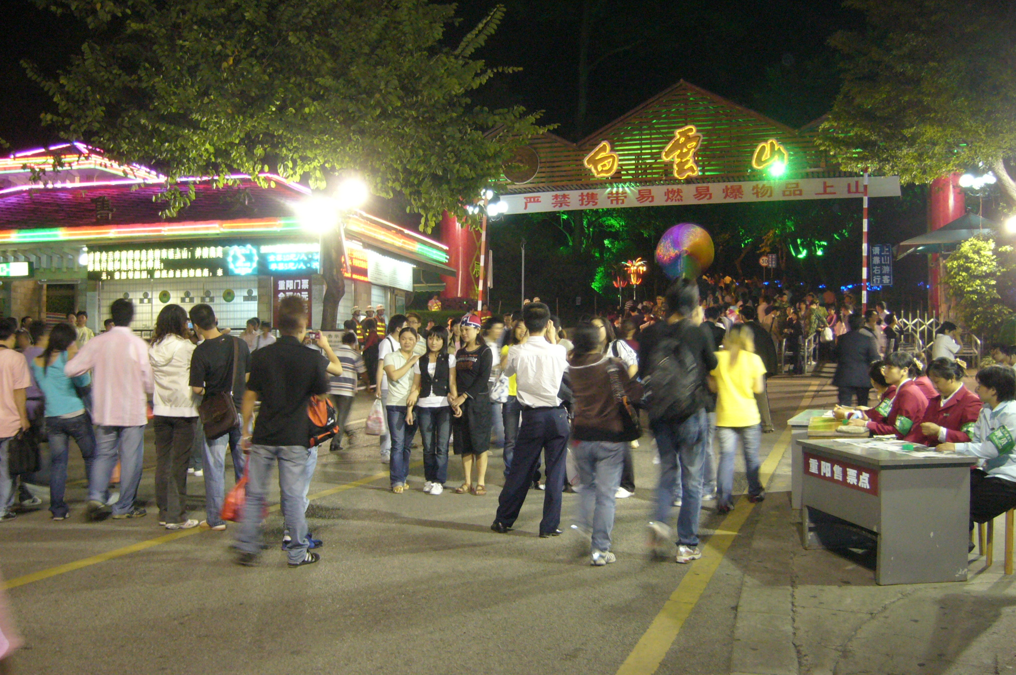 The White Cloud Mountain (Baiyun Mountain), Guangzhou. (During the Double Ninth Festival)